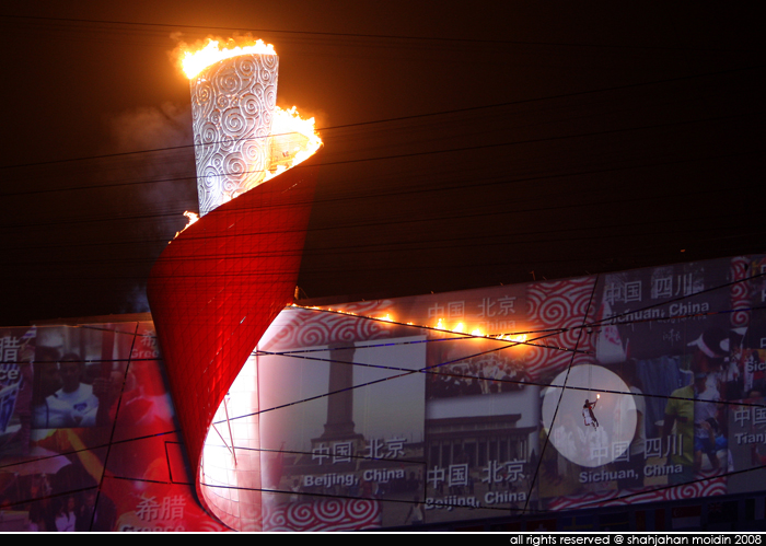 Former Chinese Olympic gymnastics champion Li Ning, the last carrier of the Olympic flame, lights the Olympic cauldron at the National Stadium, during the Opening Ceremony of Beijing 2008 Summer Olympics (August 8).